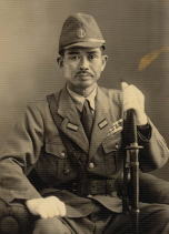 Photograph of Rear Admiral Rinosuke Ichimaru and his sword